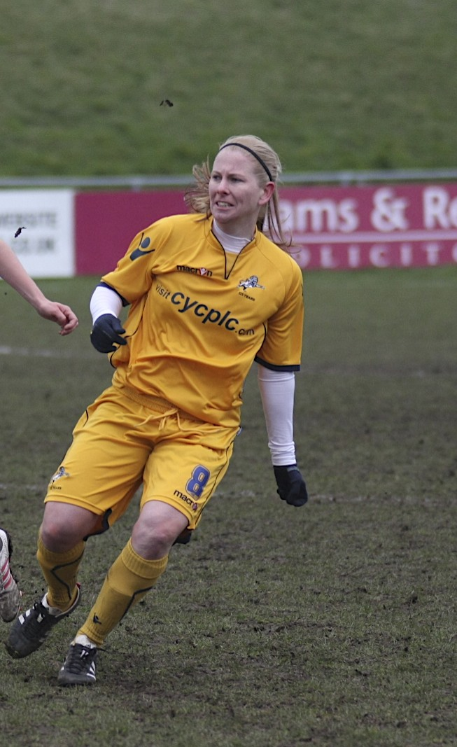 ex-Matilda Alicia 'Eesh' Ferguson playing for Millwall Lionesses in the FA Women's Premier League Southern Division, March 2013